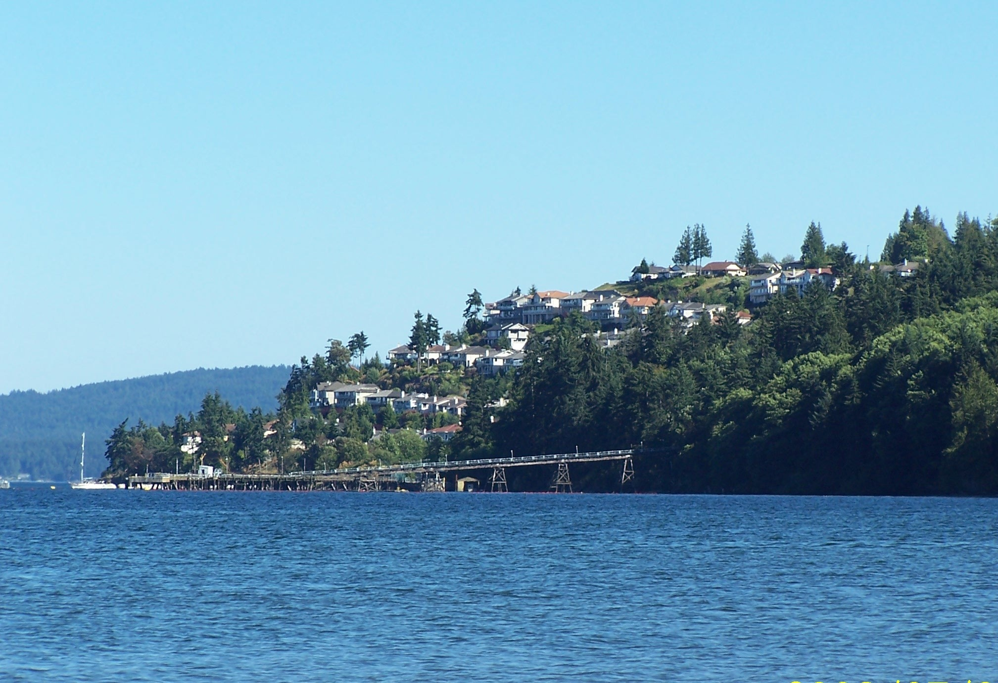 Arbutus Ridge Retirement Community from Cherry Point. Vancouver Island, British Columbia, Canada.